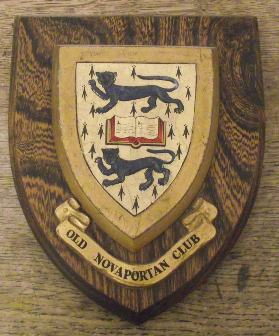 The Old Novaportans Club shield. Date unknown.